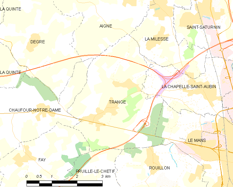 Map of French municipality